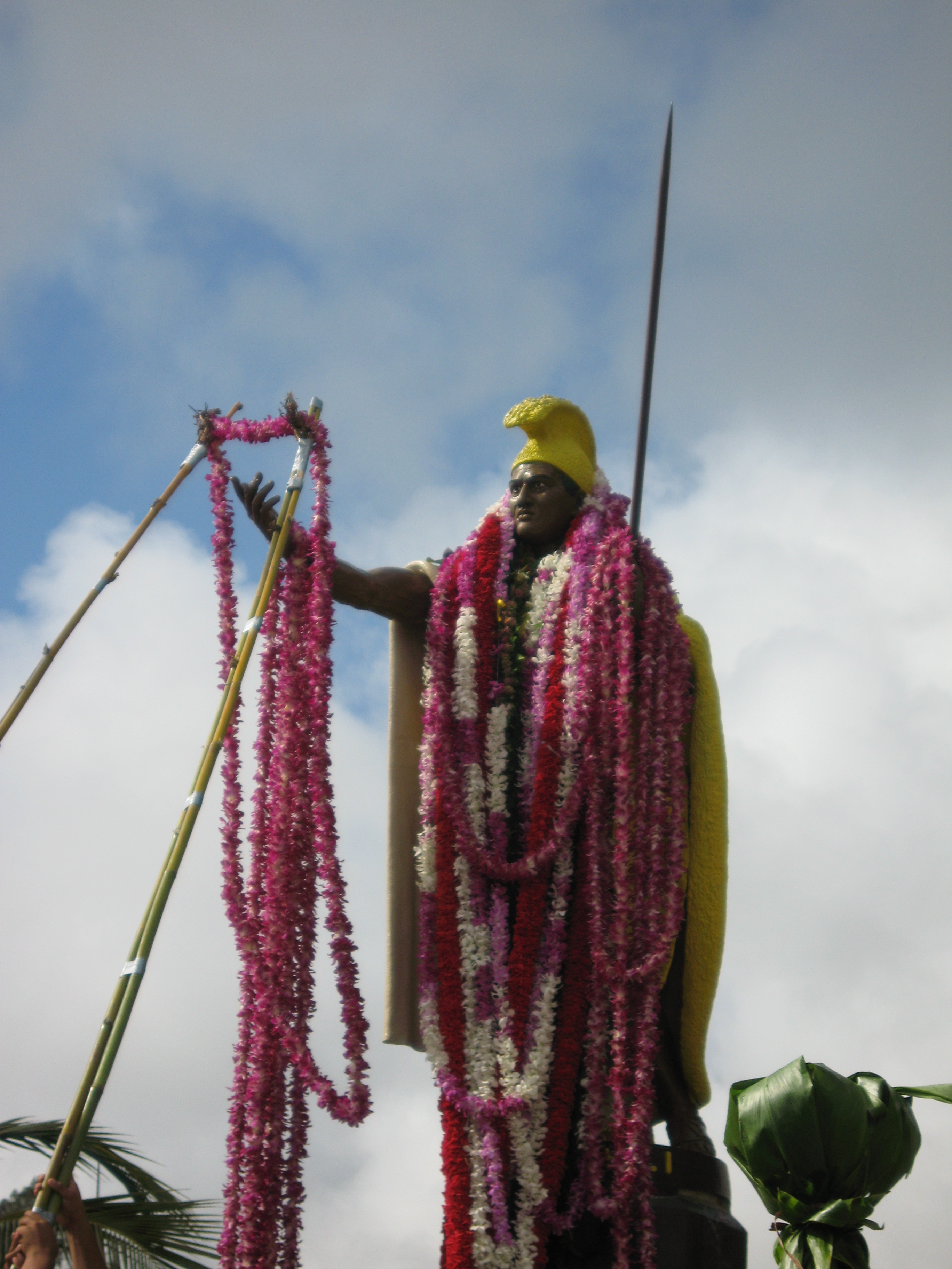 The statue of King Kamehameha I in Kapaau, Hawaii is decorated with floral leis every June 11th on Kamehameha Day. Approx 8½ feet tall, bronze. Sculptor: Thomas Ridgeway Gould (1818–1881).